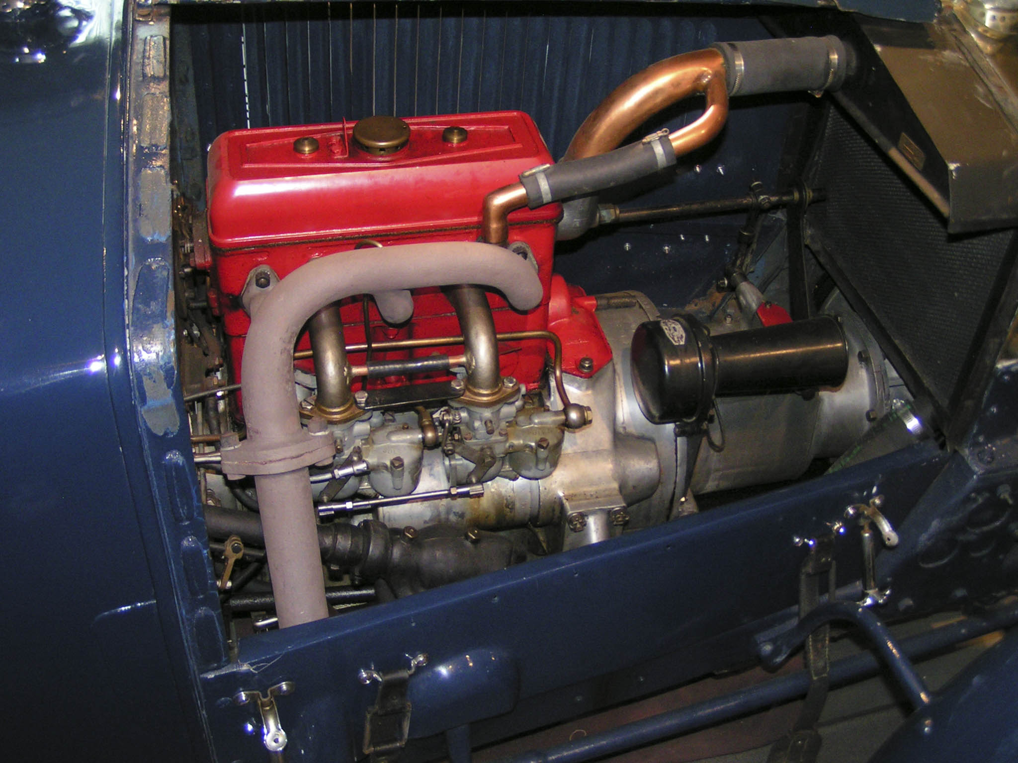 1929 Tracta A engine This car placed first in its class and amazingly with only 995cc seventh overall in the 1929 Le Mans race. This car is original with the exception of a new coat of paint. The engine is a Scap OHV 995cc inline four giving 45hp.1929 Tracta A Engine